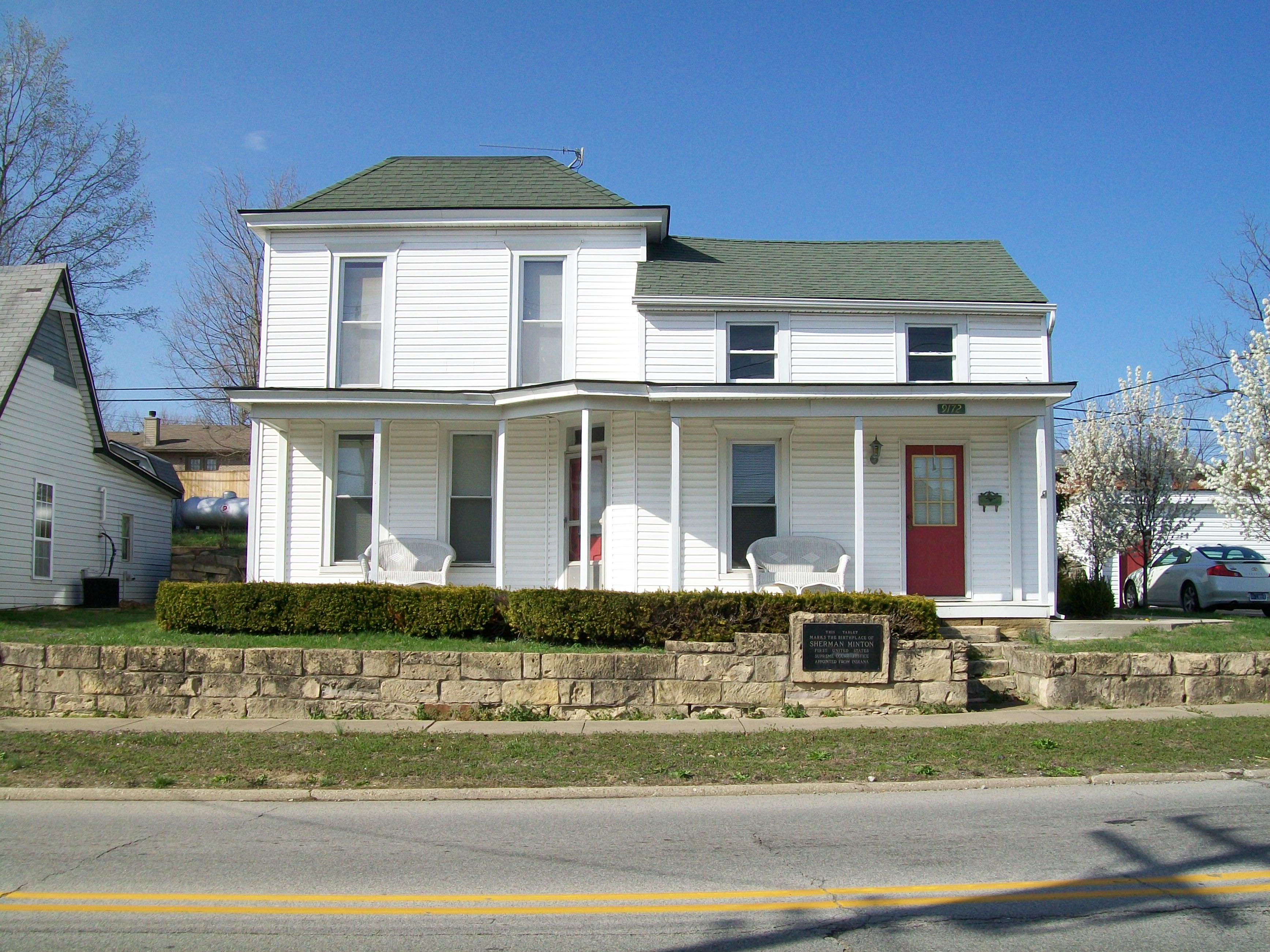 The boyhood home and birthplace of Sherman Minton, on State Road 64 in Georgetown Indiana.